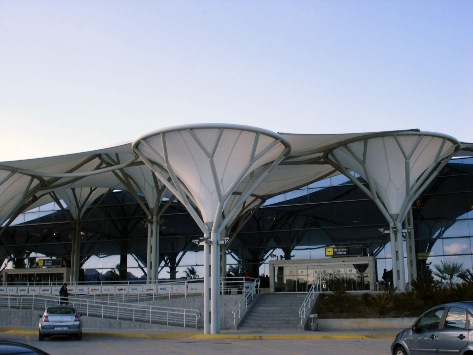 Outside of Split Airport (SPU).